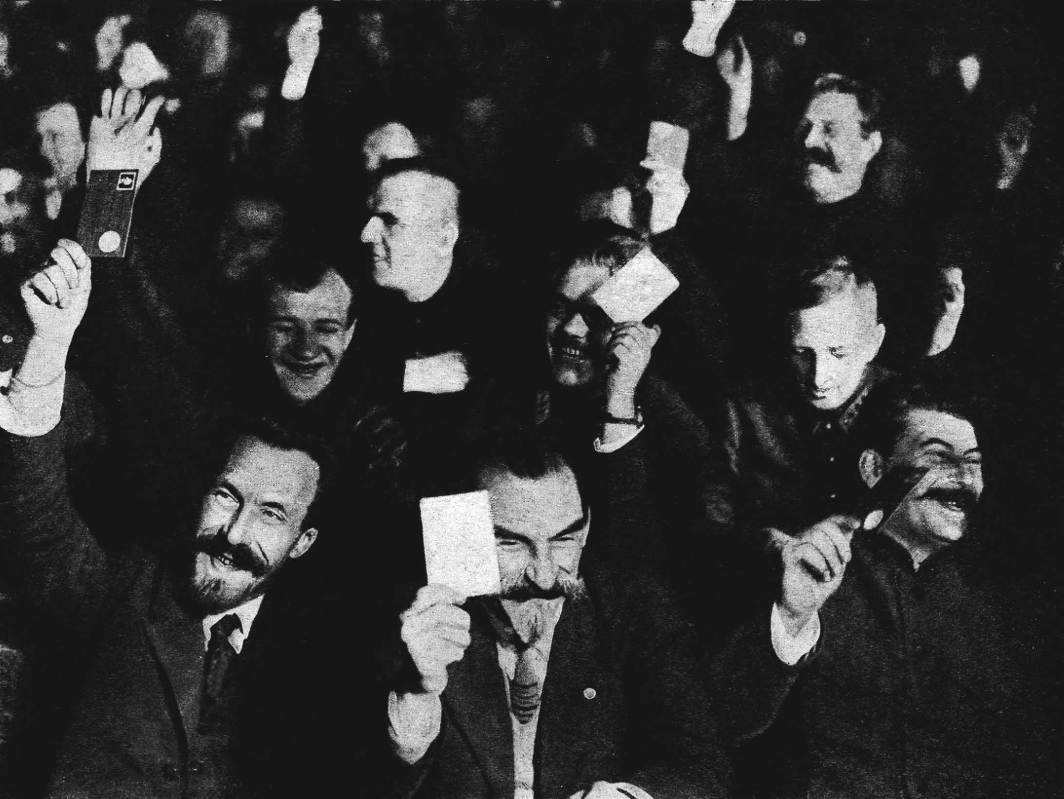 The 15th Congress of the All-Union Communist Party (Bolsheviks) was held during 2–19 December 1927 . Identified on the photo: First row from right: General Secretary of the Communist Party of the Soviet Union Joseph Stalin, Chairman of the People's Secretariat and People's Commissar of Justice Ukrainian SSR Mykola Skrypnyk, Chairman of the Council of People's Commissars of the Soviet Union Alexei Rykov. Second row from right: Head of the Political Directorate of the Red Workers' and Peasants' Army Andrei Bubnov, The Chairman of the Central Control Commission of the Communist Party of Ukrainian SSR Volodymyr Zatonsky. Third row: Chairman of the Central Control Commission of the Communist Party of the Soviet Union Sergo Ordzhonikidze.